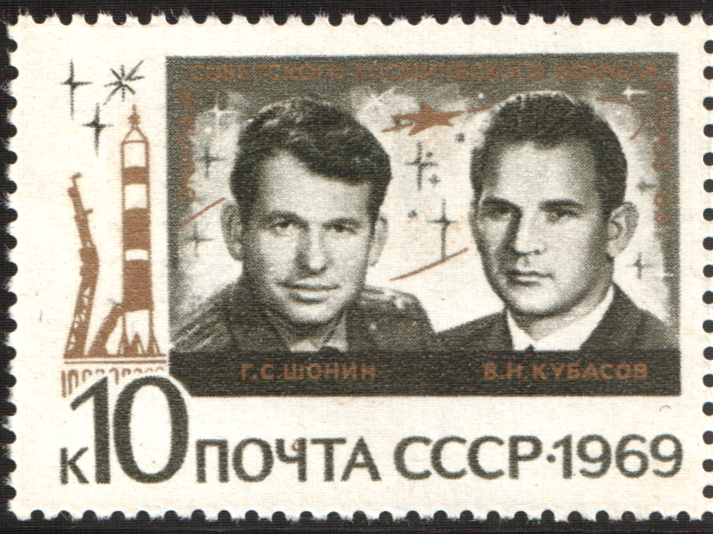 USSR stampː Georgi Shonin and Valeri Kubasov (Soyuz 6). Seriesː Triple Space Flights the Space Ships Soyuz 6 (11-16.10), Soyuz 7 (12-17.10) and Soyuz 8 (13-18.10)